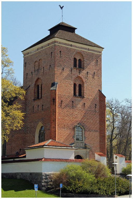 Tyresö church, Tyresö municipality, Sweden